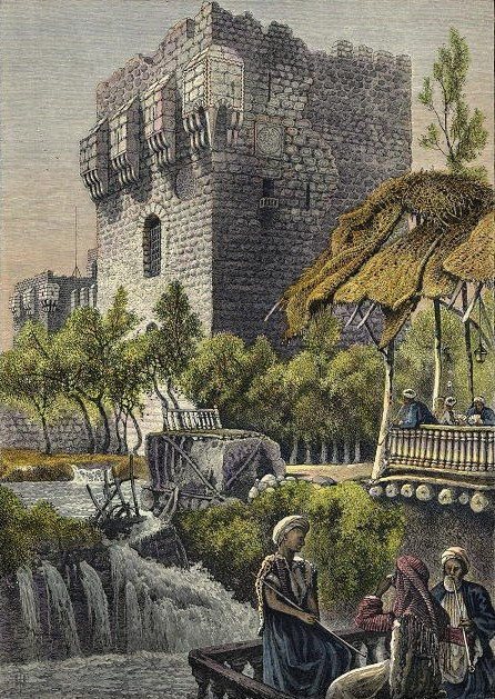 An 1880s depiction of the Citadel of Damascus.